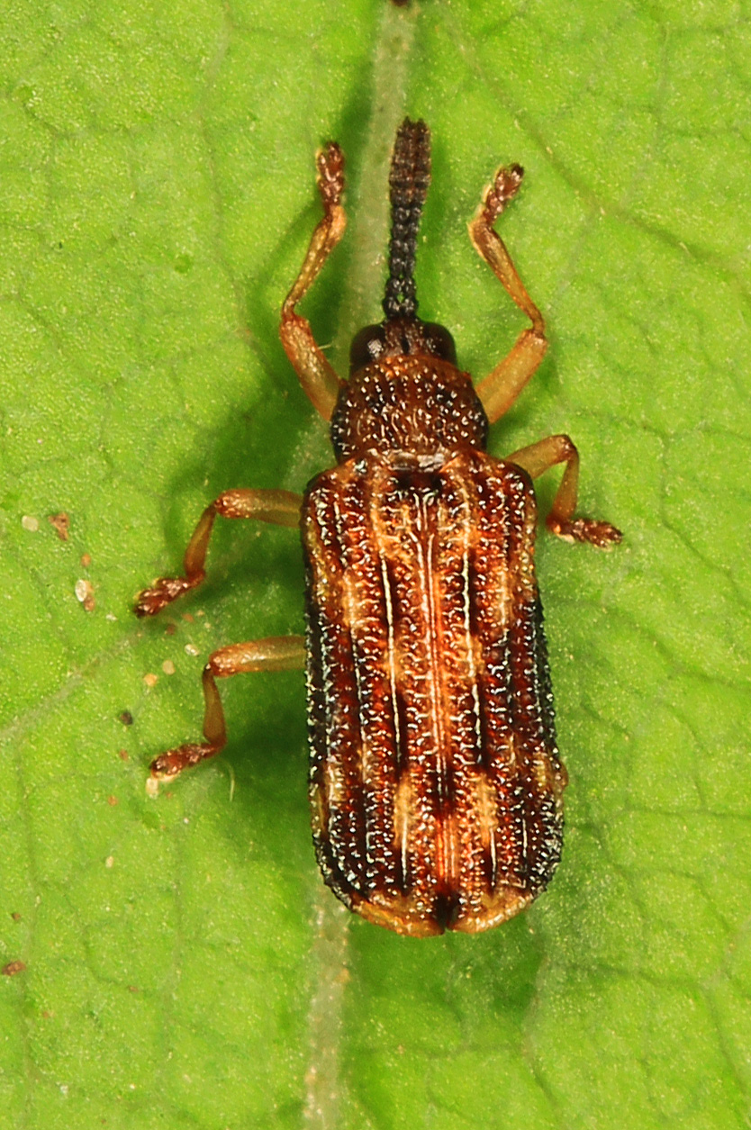 Sumitrosis inaequalis, SERC, Edgewater, Maryland. 6/6/2015 Anne Arundel County Thanks to Ashley Bradford for the ID